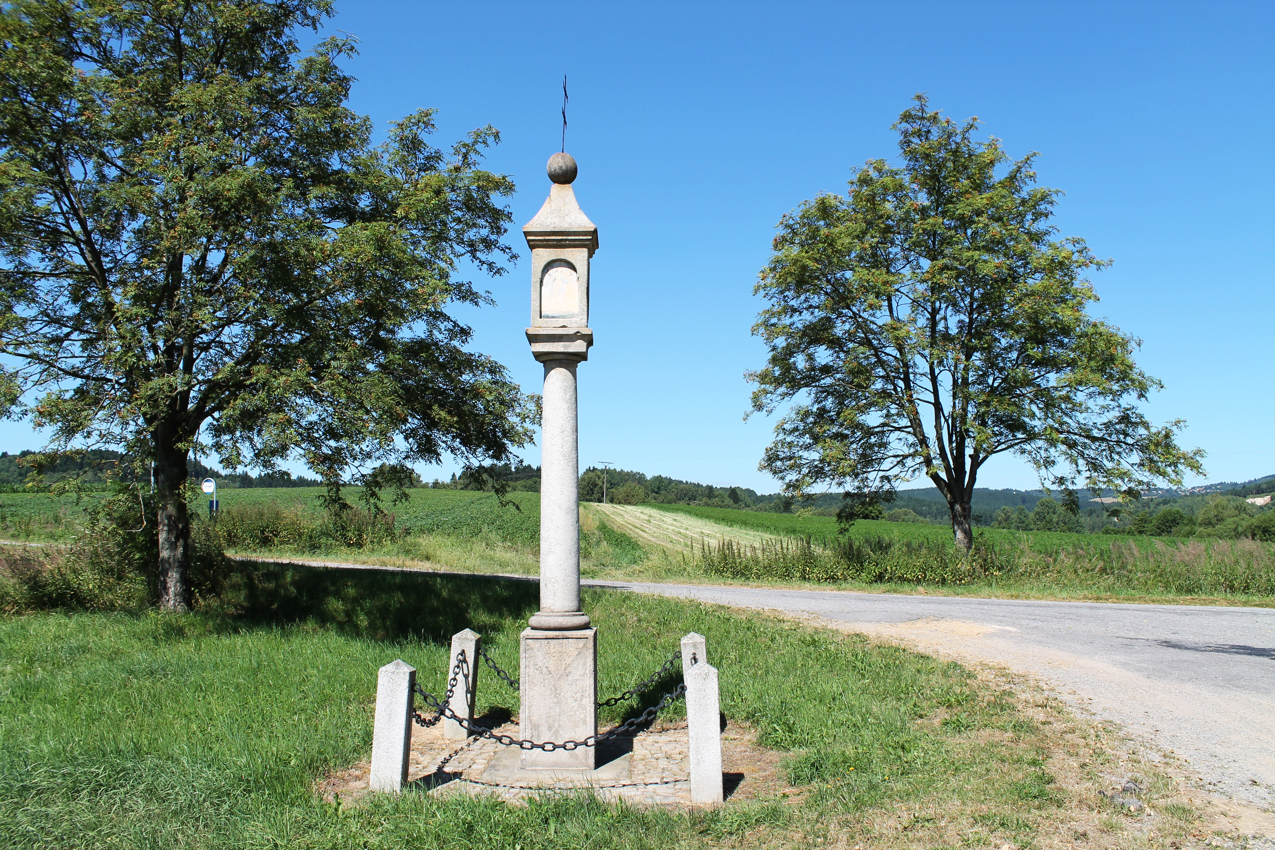 Wayside shrine, Dobrá Voda, Mrákotín, Jihlava District, Czech Republic